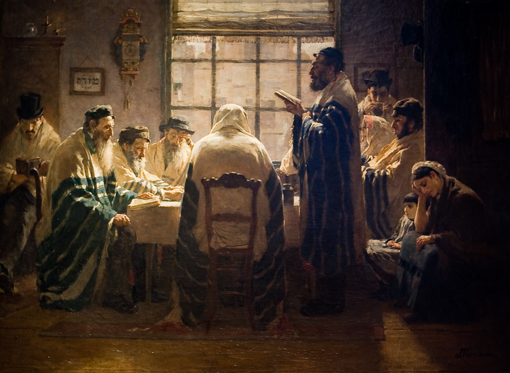 [De Rouwdagen] De treurdagenMaterial: fabric & wood & oil An oil painting with from left to right: Interior with four seated men dressed in tallit, a figure viewed from the back, a reader in tallit standing and facing to the left, two men, two women and a child, the scene around a table in front of a window, open door on the far right.